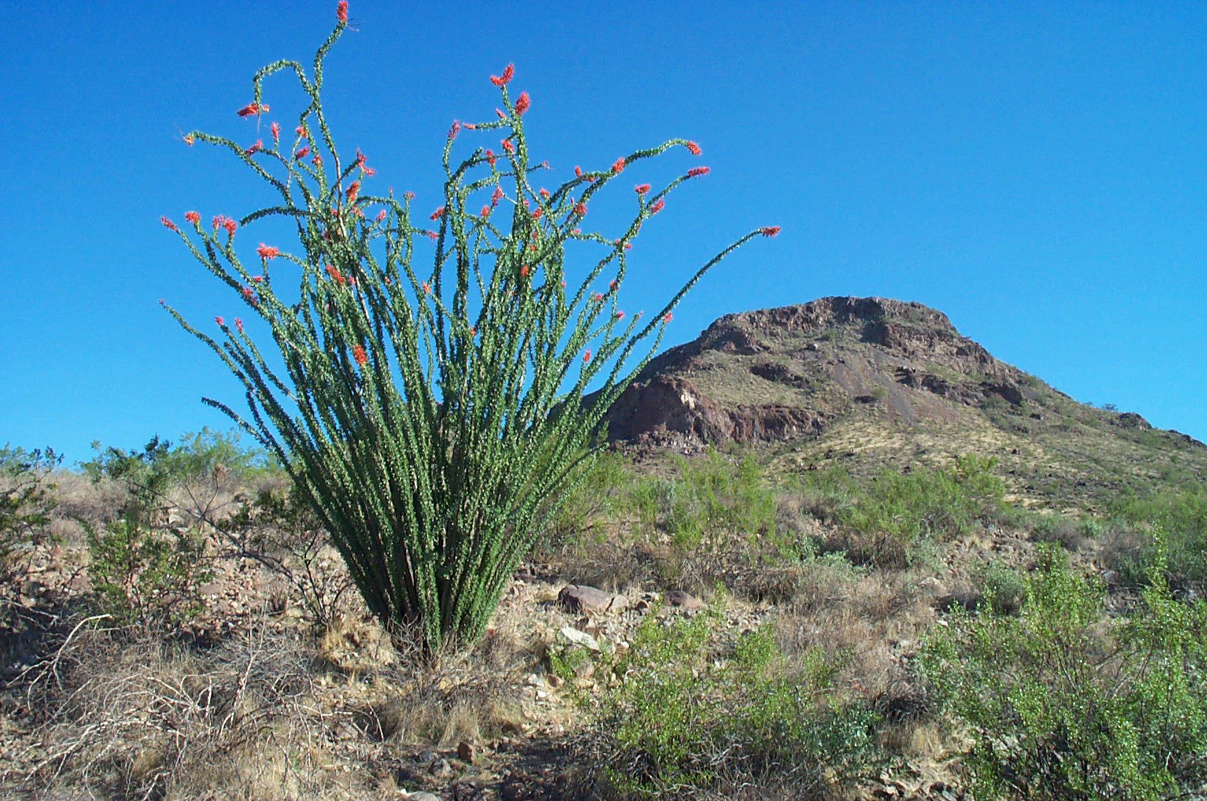 Photo of ocotillo and Lookout Mountain, Phoenix, AZ taken by Jennifer Horn, March 2006